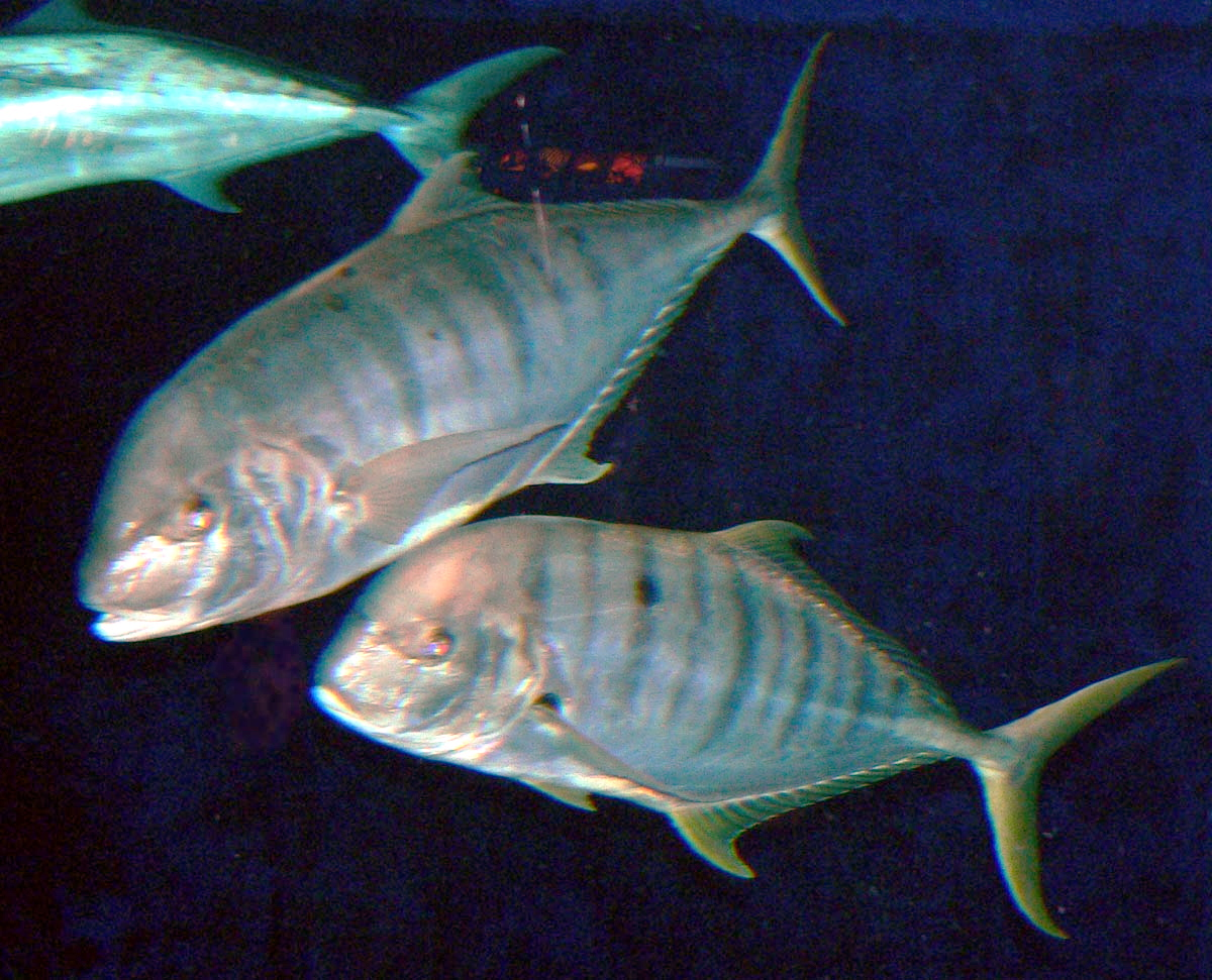 Photo of Gnathanodon speciosus (golden trevally) at the Birch Aquarium in San Diego